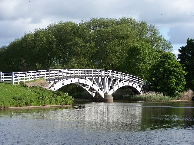 Horse Bridge on the River Weaver Built in 1910 rebuilt 1976 (I think) near to Dutton Lock